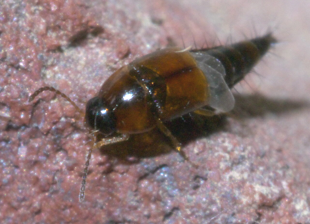 Tachyporus, Subfamily: Crab-like Rove Beetles, Size: about 4 mm, ID Confidence: 98